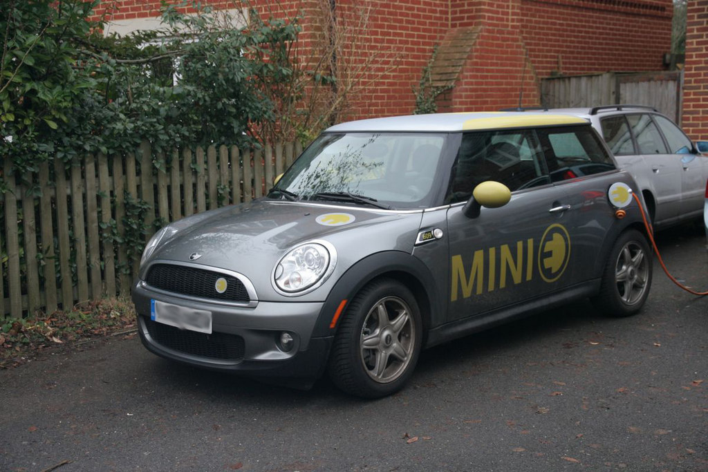 An Electric MINI. Some person was lucky in getting one of these to test for six months, I heard on the radio they wanted people to apply. This one is the first I have seen.